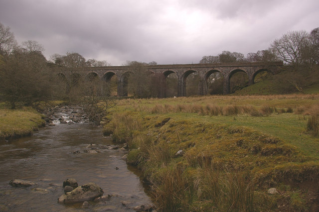 Mosedale Viaduct Viewed from alongside Mosedale Beck (access by kind permission of the farmer at Wallthwaite)